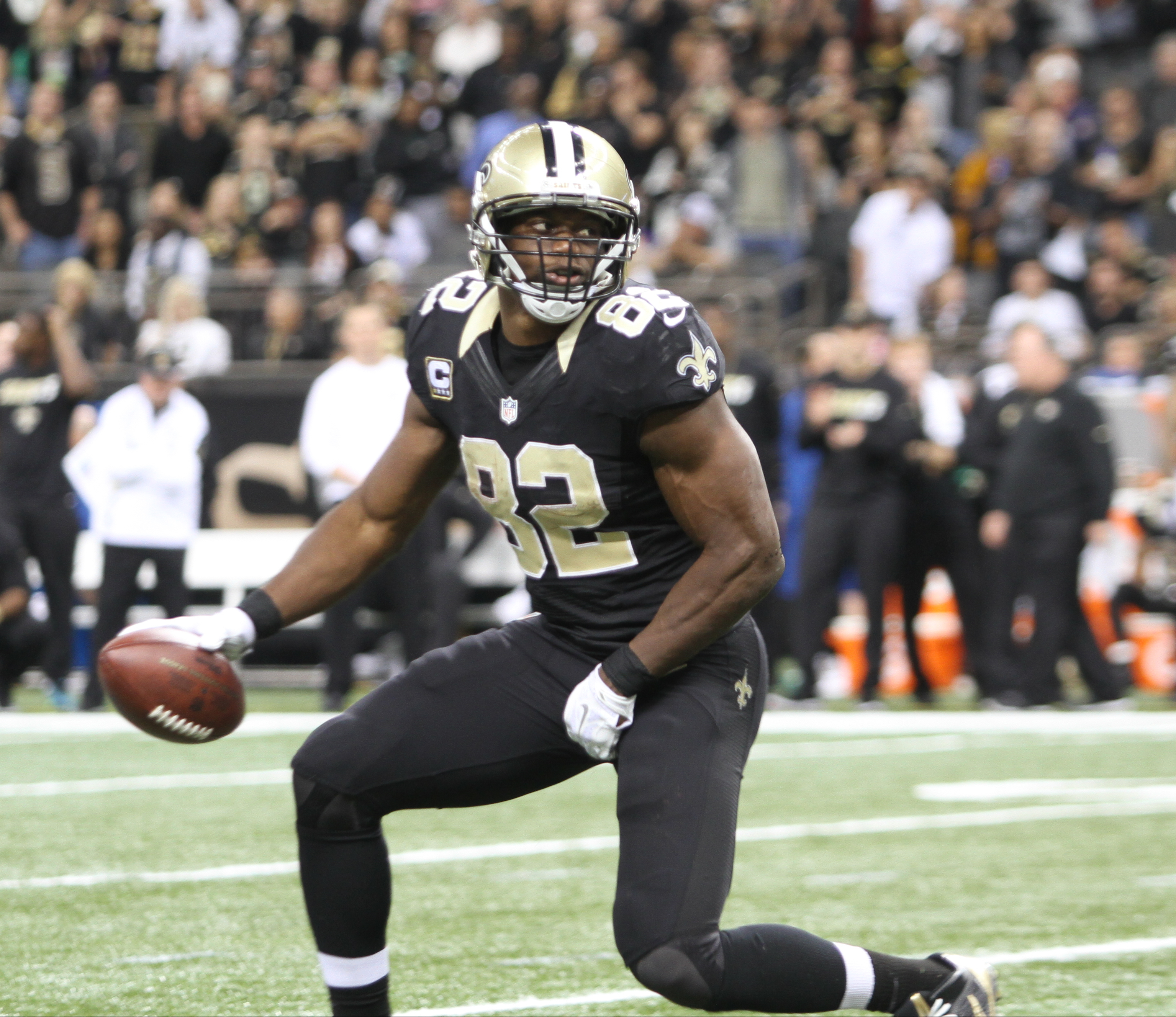 New Orleans Saints vs Carolina Panthers, December 6, 2015, Tammy Anthony Baker, Photographer